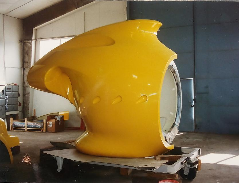 mini submarine